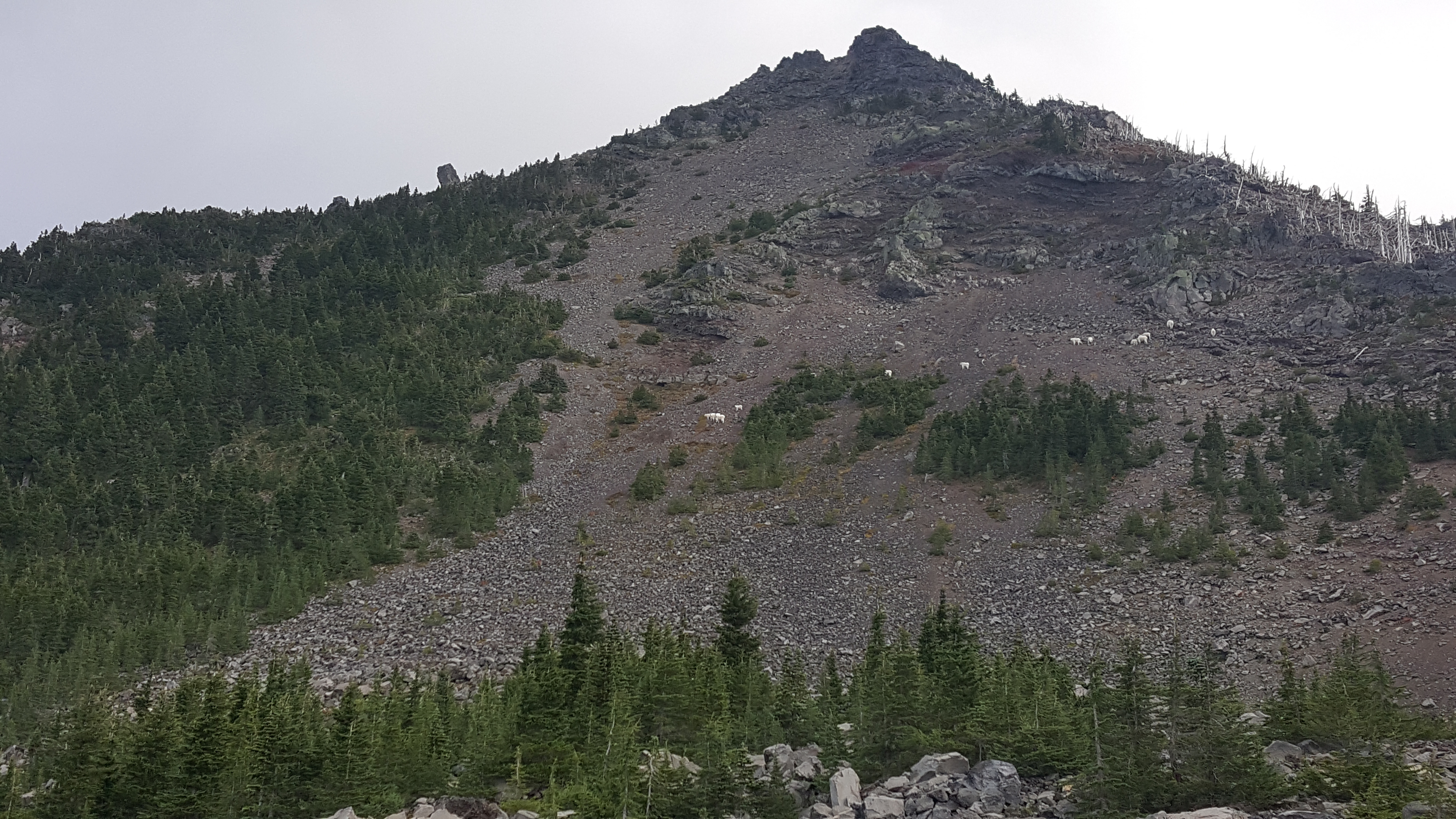 A rare herd of mountain goats can be seen on the North side of Three Fingered Jack.